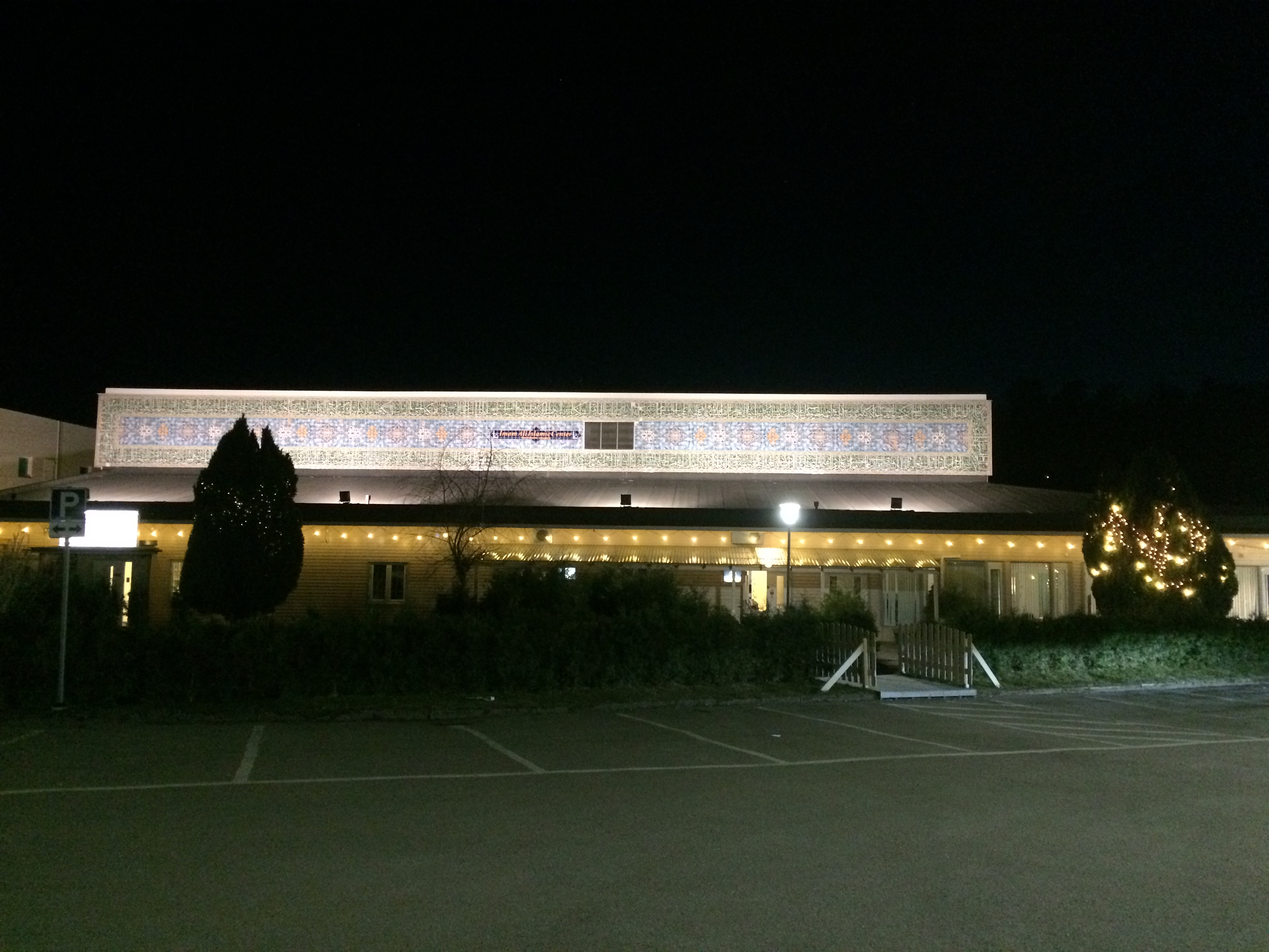 The front of Imam Ali Islamic Center in Järfälla during the night.